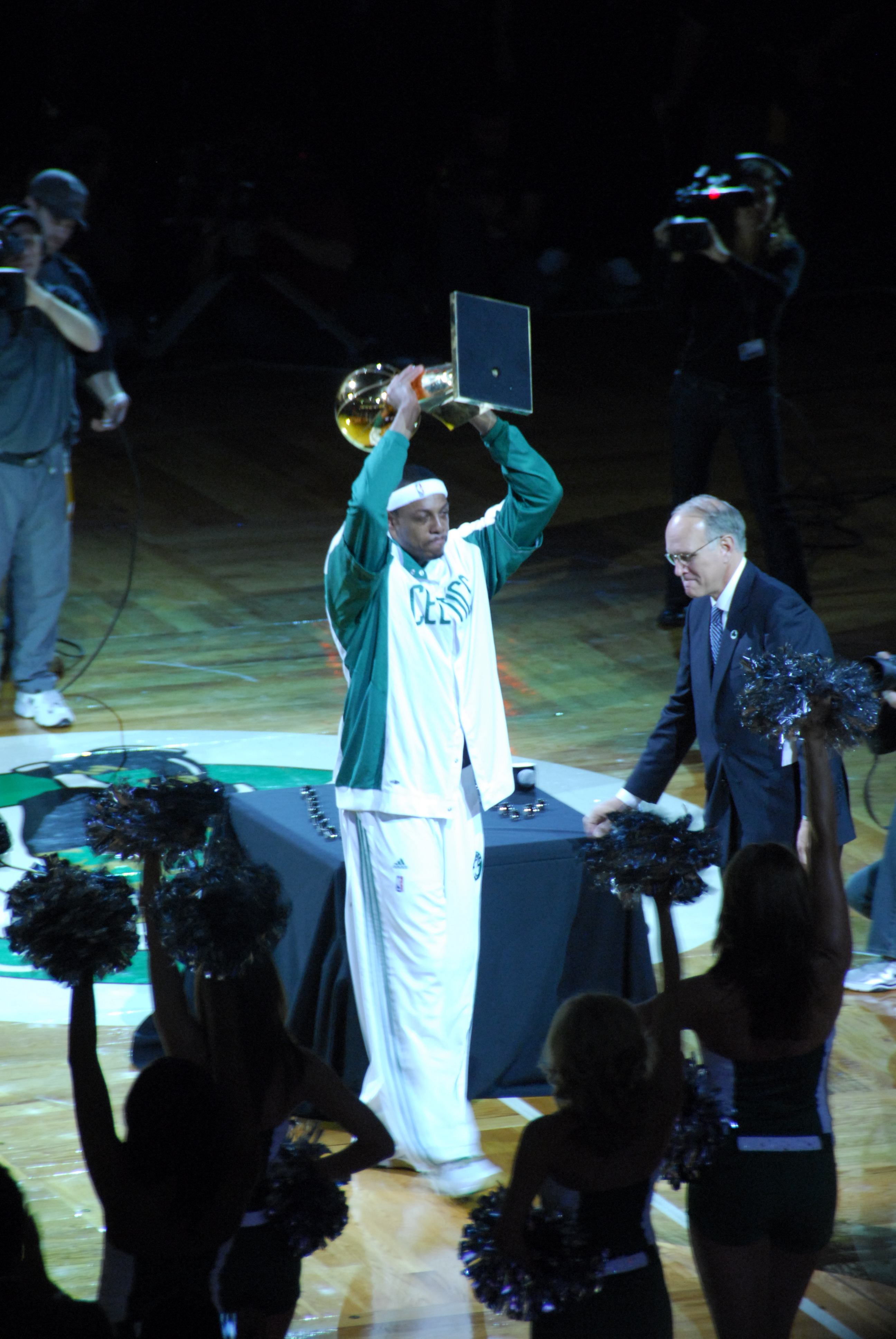 Buddy-Icon von Eric Kilby Cavs @ Celtics 10/28/2008